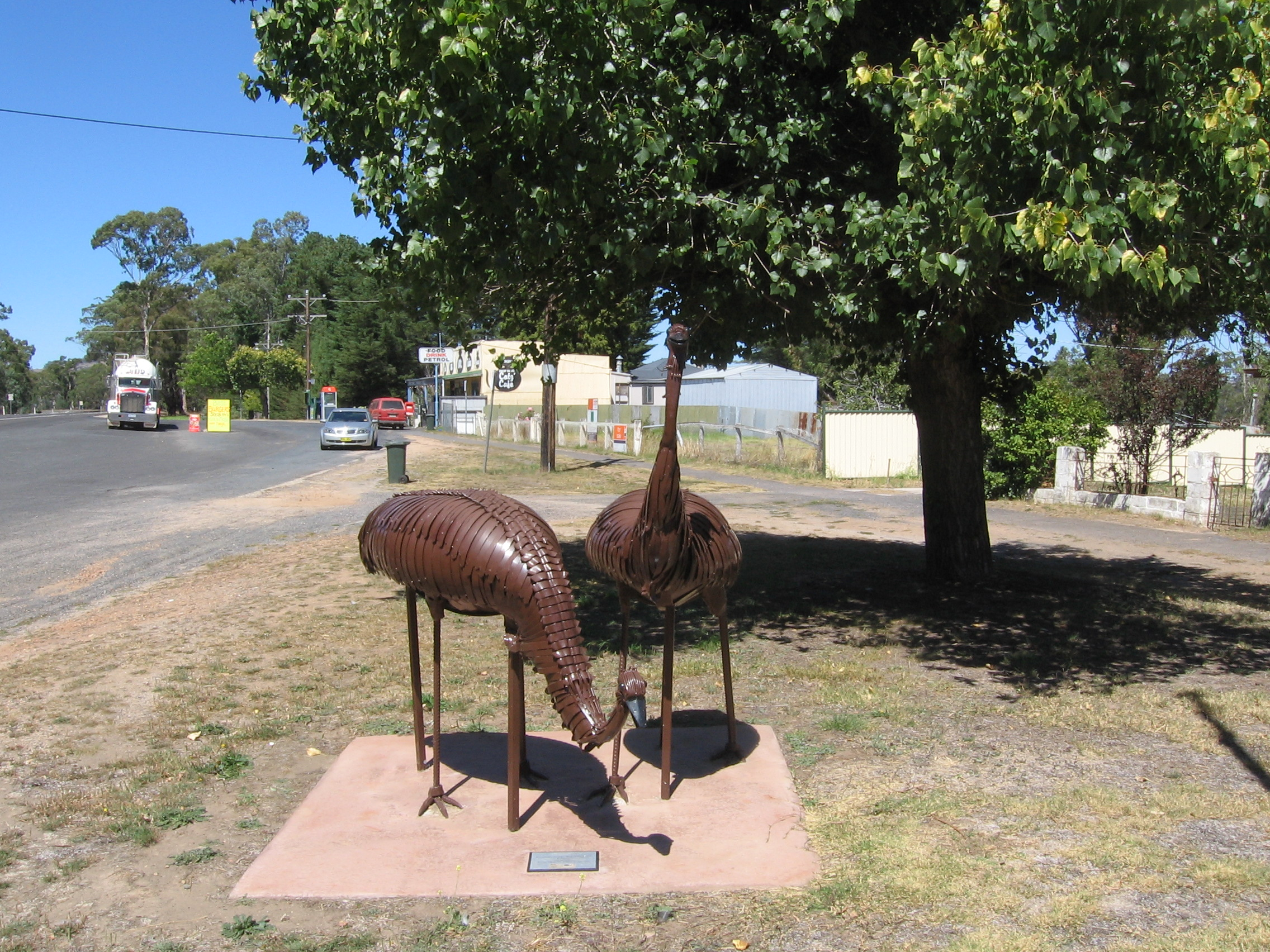 Statues of Emus at Tooborac, Victoria